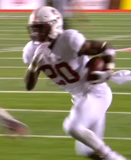 Bryce Love